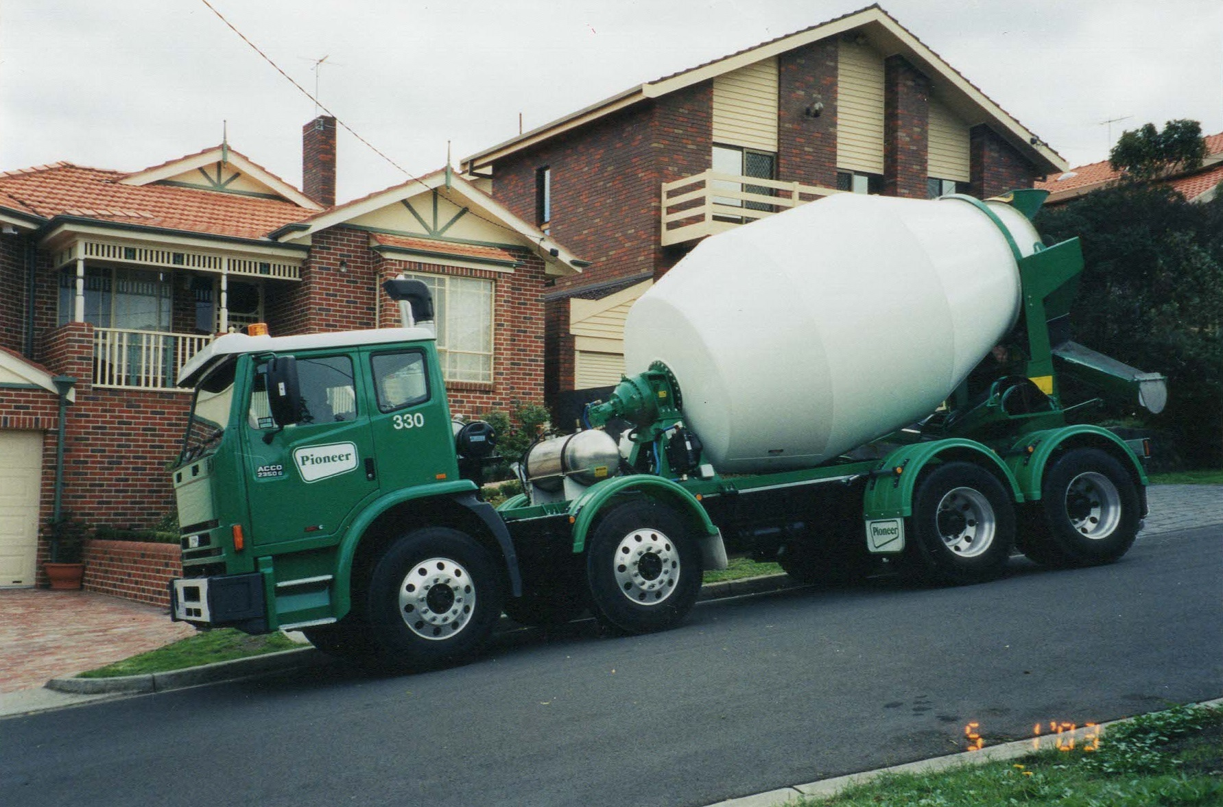 Pioneer Concrete Truck